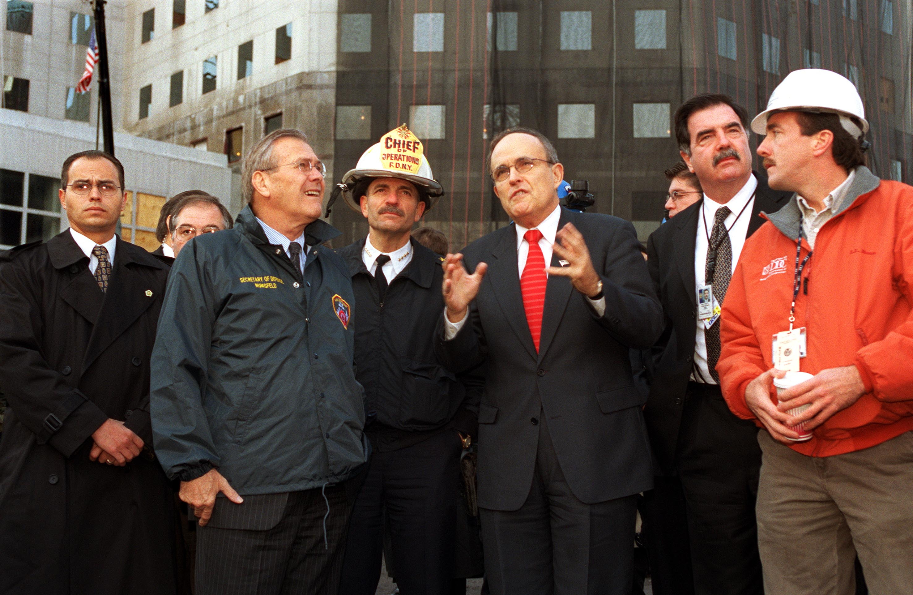 New York City Mayor Rudolph Giuliani (3rd from right) describes the clean-up operation at the site of the World Trade Center terrorist attack in lower Manhattan to Secretary of Defense Donald H. Rumsfeld (2nd from left) on Nov. 14, 2001. Rumsfeld is visiting the site of the Sept. 11th disaster to speak to Giuliani, officials from the N.Y. Fire Department and the Office of Emergency Management.